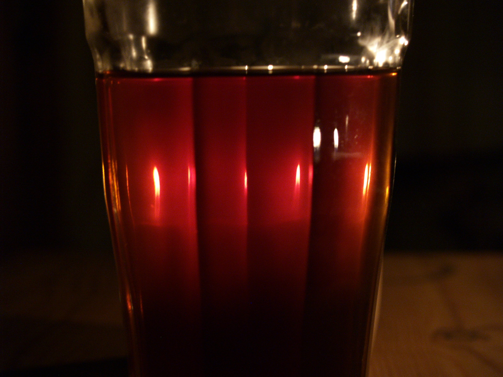 Rum toddy